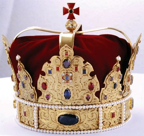 Crown of Rus-Ukraina